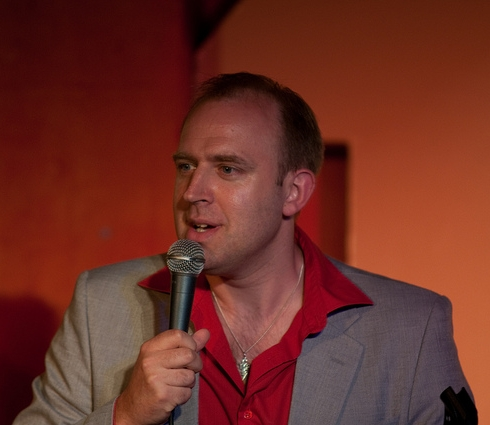 Tim Vine onstage at the 100 Club in June 2010.